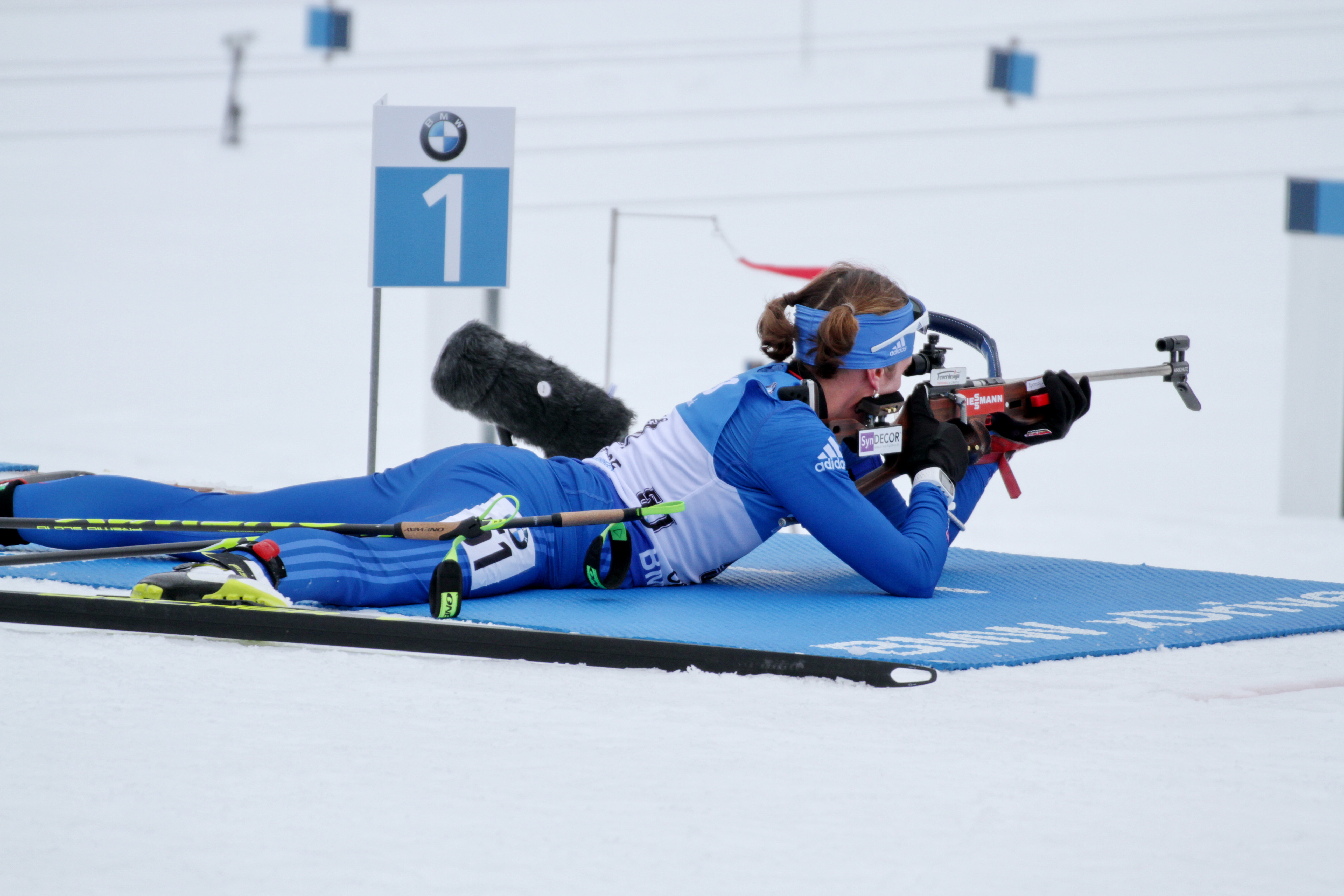 2018 Oberhof Biathlon World Cup - Sprint Women